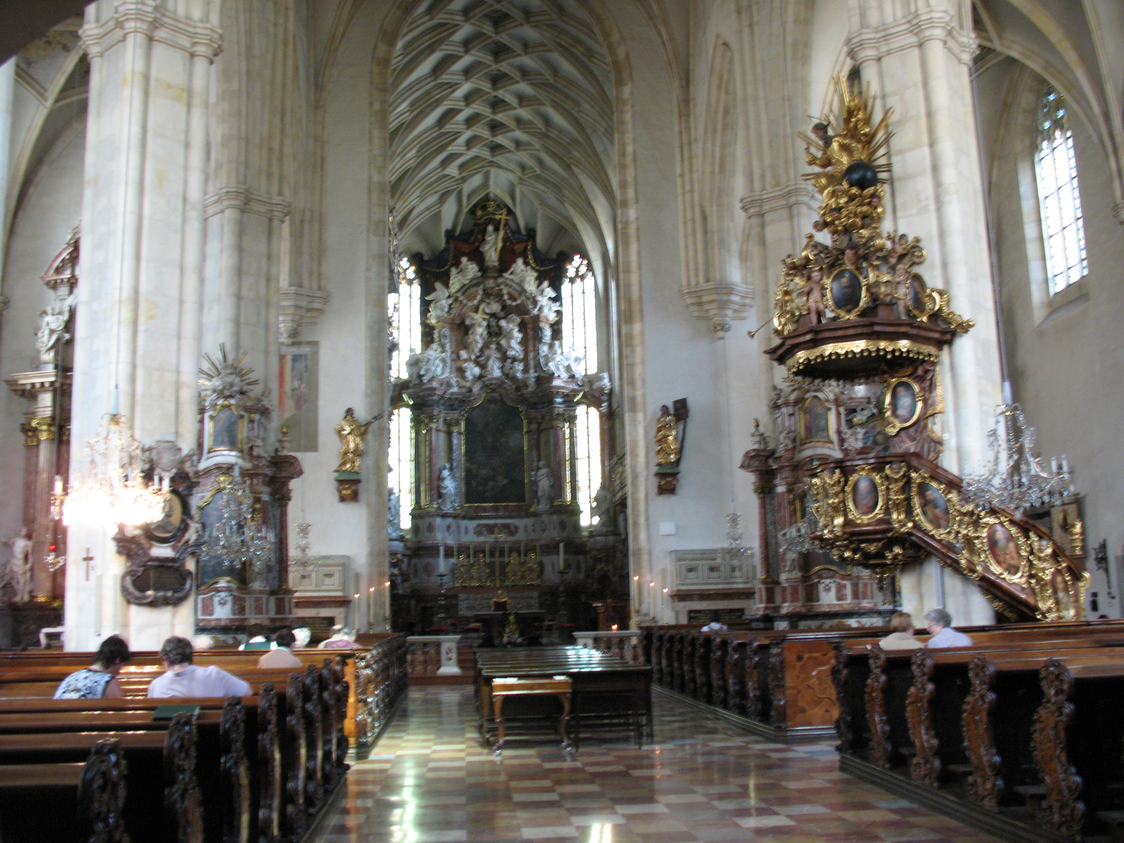 Cathedral, Graz, Austria